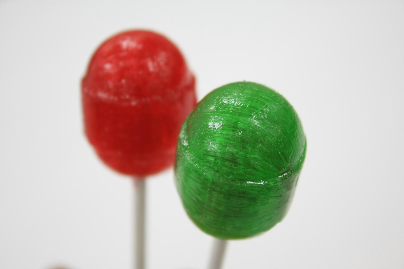 Charms Blow Pop